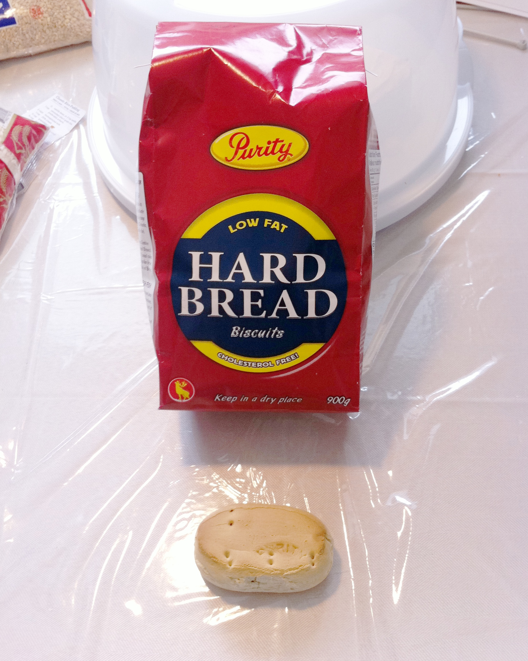 Photo of a bag of Purity hard bread with one biscuit sitting in front of the bag